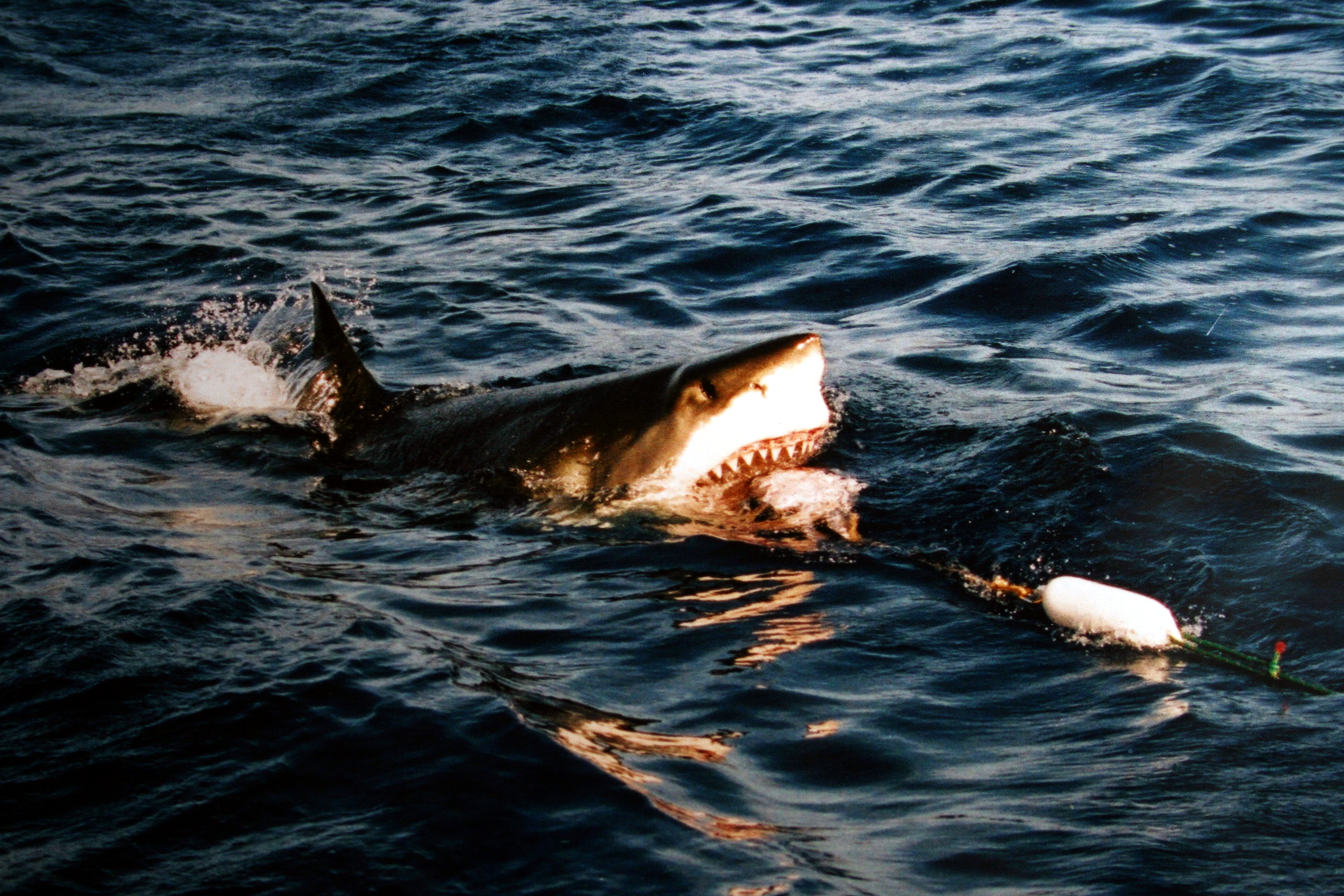 A great white shark at Isla Guadalupe, Mexico. Please note, we did not try to catch a shark. We did try to bring sharks closer to the cages. No shark was hurt. The picture is a digital copy of my old film picture.